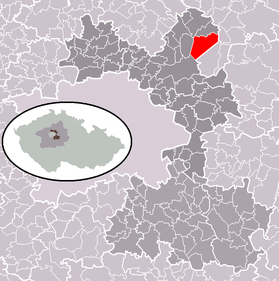 Location of Hlavenec municipality within Prague-East District and administrative area of Brandýs nad Labem-Stará Boleslav as a Municipality with Extended Competence.